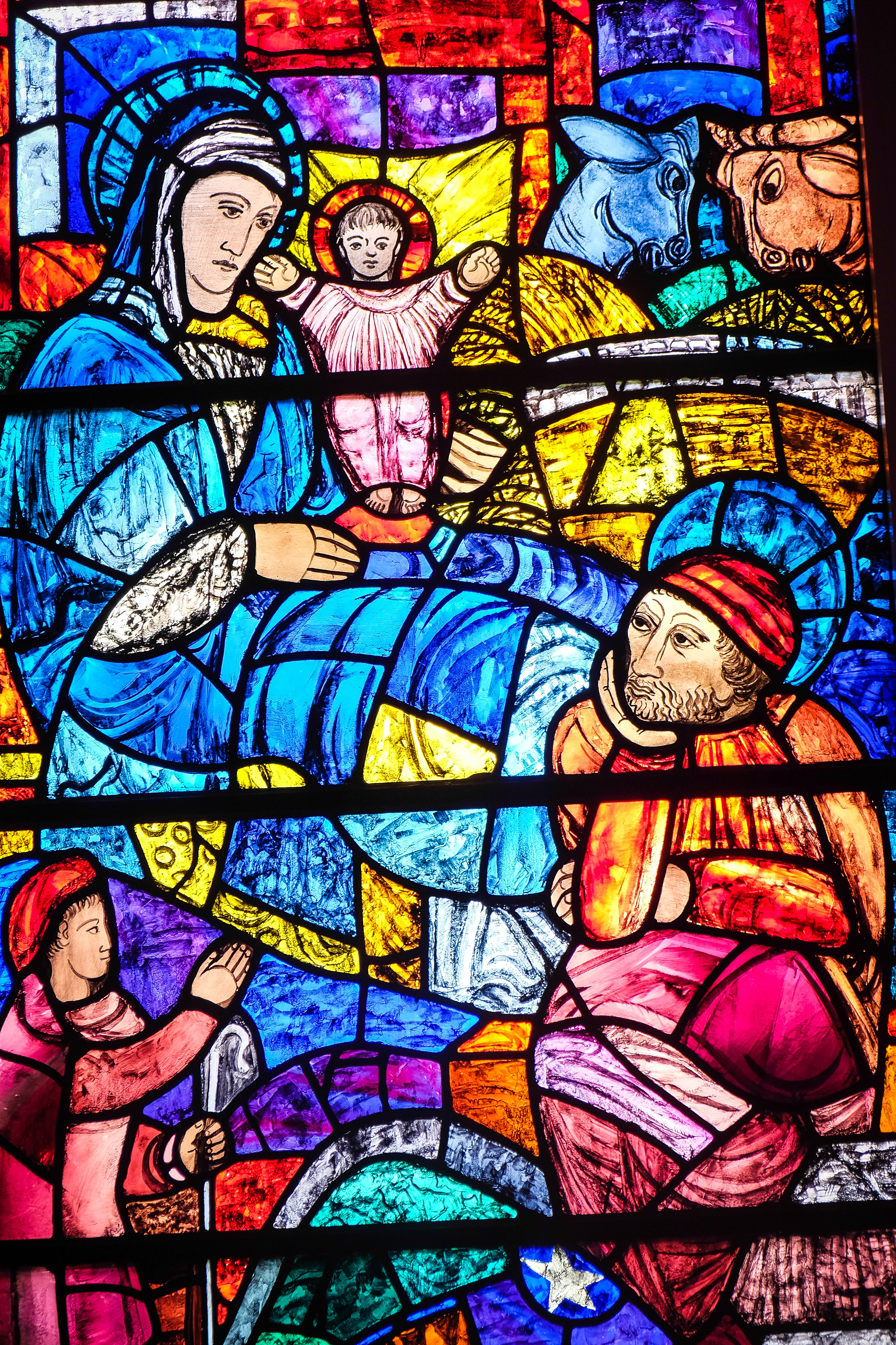 Stained glass window designed by Evie Hone in the chapel at the Jesuit Manresa Spirituality Centre in Dublin.